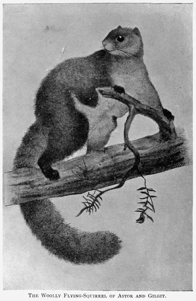 Caption The Woolly Flying-Squirrel of Astor and Gilgit. Woolly Flying Squirrel of Gilgit Eupetaurus cinereus